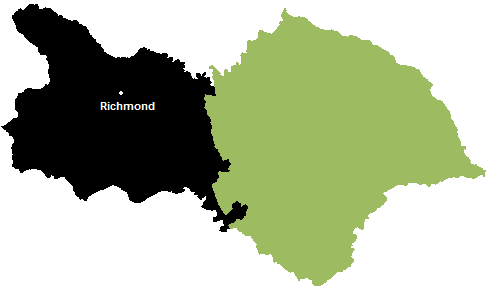 Breton Honour of Richmond, depicted within the historic North Riding of Yorkshire. It was centered on the town of Richmond, but covered a total of five wapentakes; Gilling West, Gilling East, Hang West, Hang East and Halikeld.